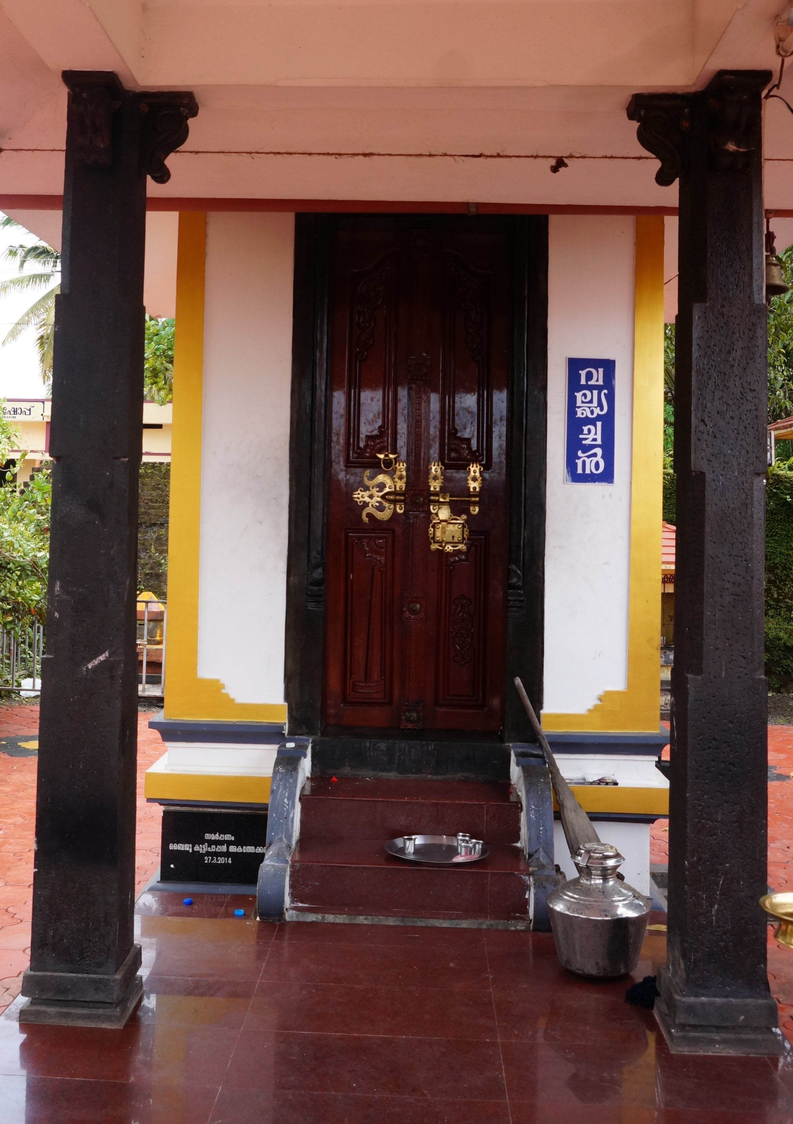 A temple in kumarakom kerala